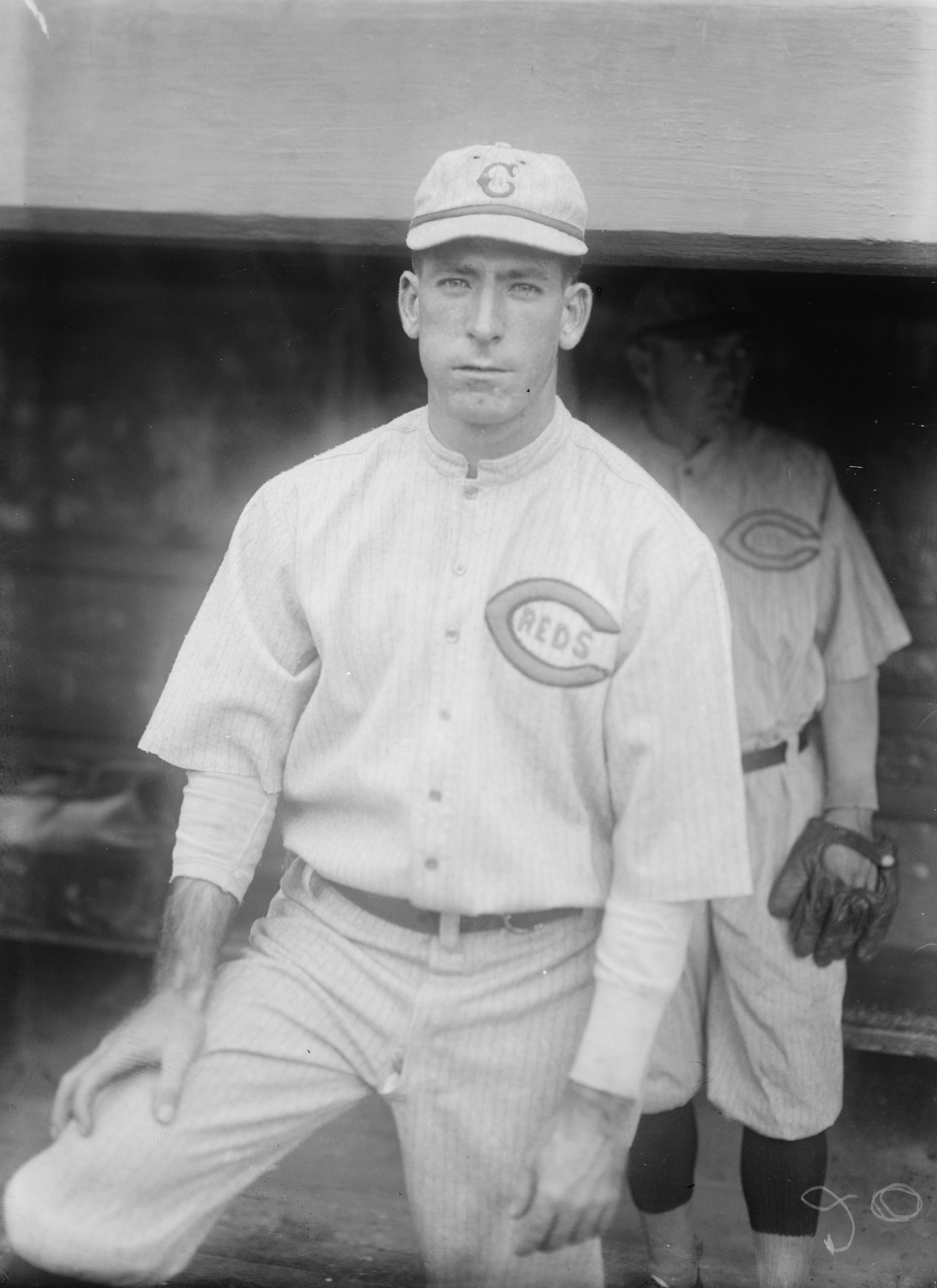 Title: Dolf Luque, Cincinnati NL (baseball) Abstract/medium: 1 negative : glass ; 5 x 7 in. or smaller.